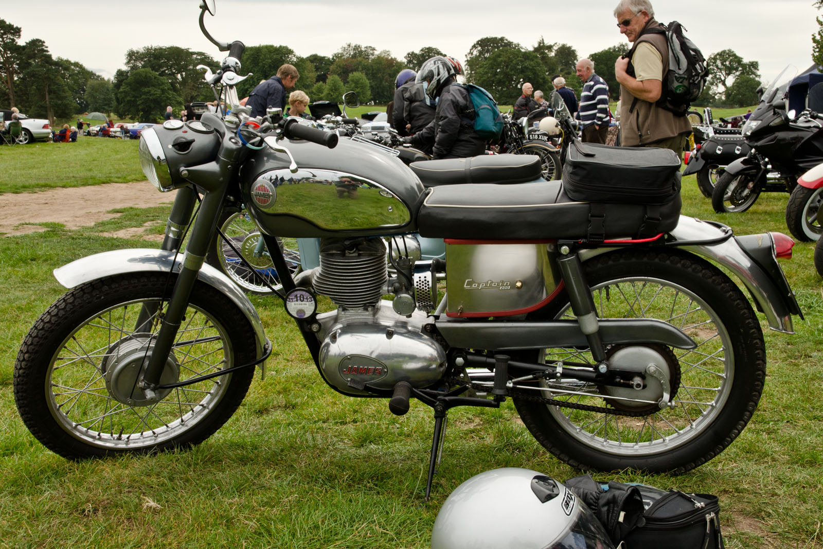 Cholmondeley Classic Car Show 01/09/2013